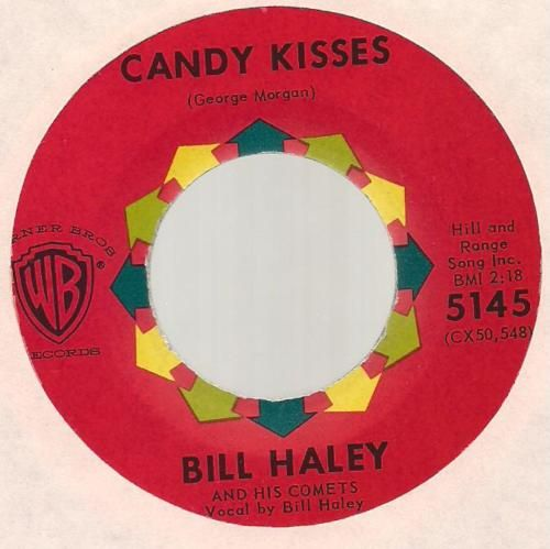 Candy Kisses by Bill Haley and his Comets, Warner Bros. 1960.